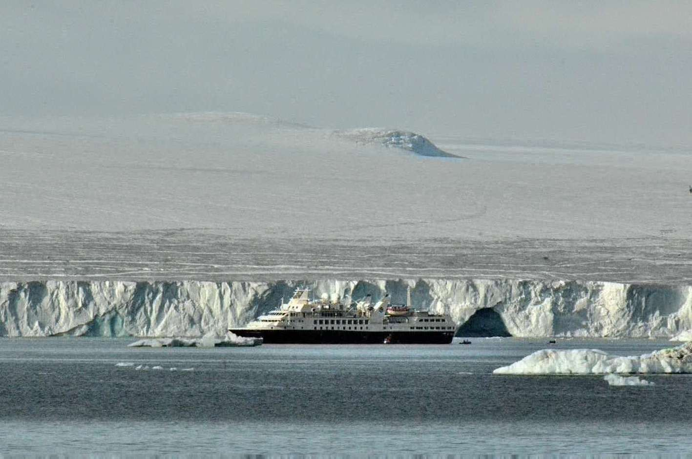 Salisbury Island (Franz Josef Land, Russia): Edge of glacier, in front M/S Silver Explorer